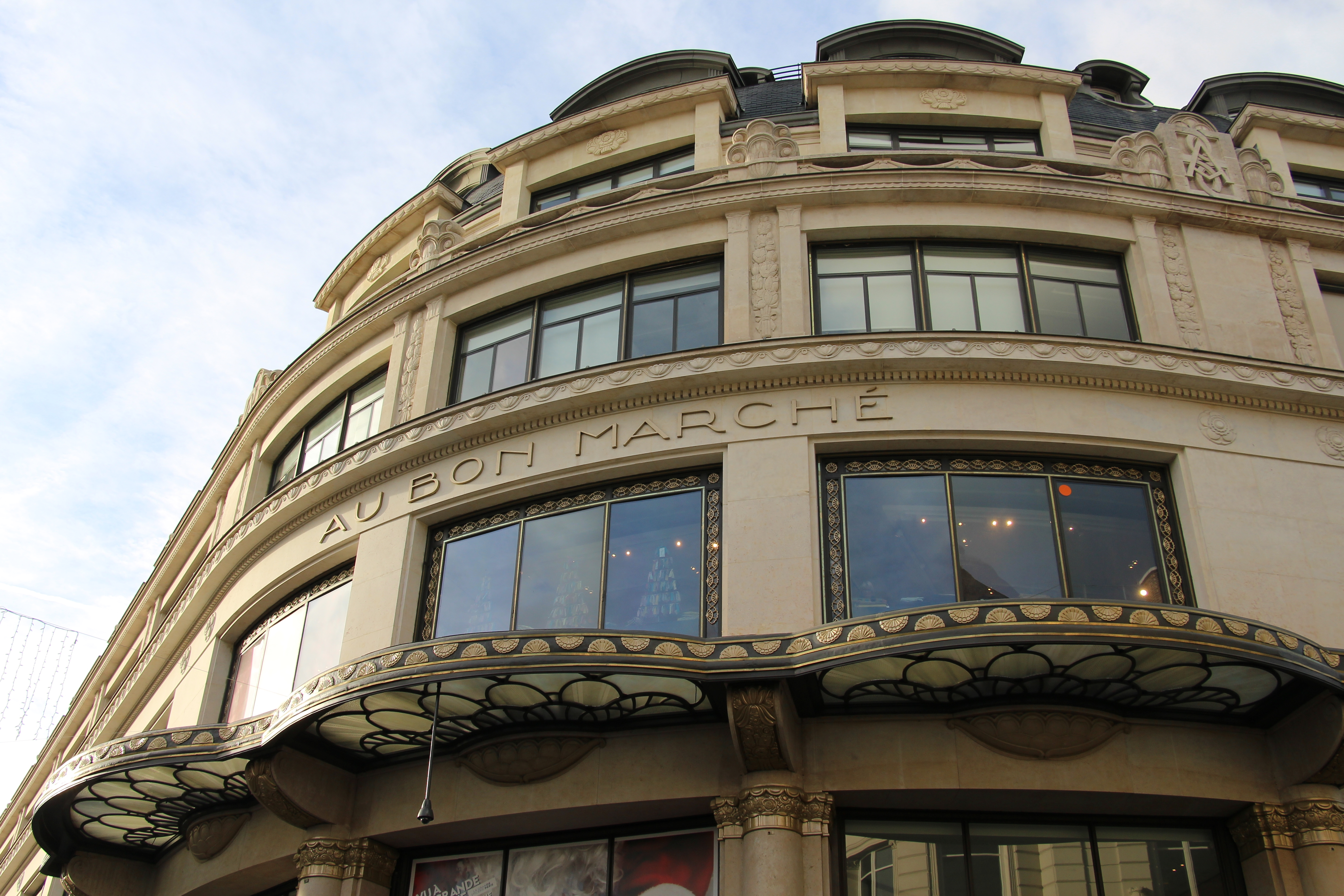 Saint-Thomas-d'Aquin | Rue de Sèvres Huge department store built at the request of Aristide & Marguerite Boucicaut. Arch. Alexandre Laplanche 1869-72. Arch. Louis-Charles Boileau and Armand Moisant 1870-87. Arch. Gustave Eiffel did minor work in 1879.